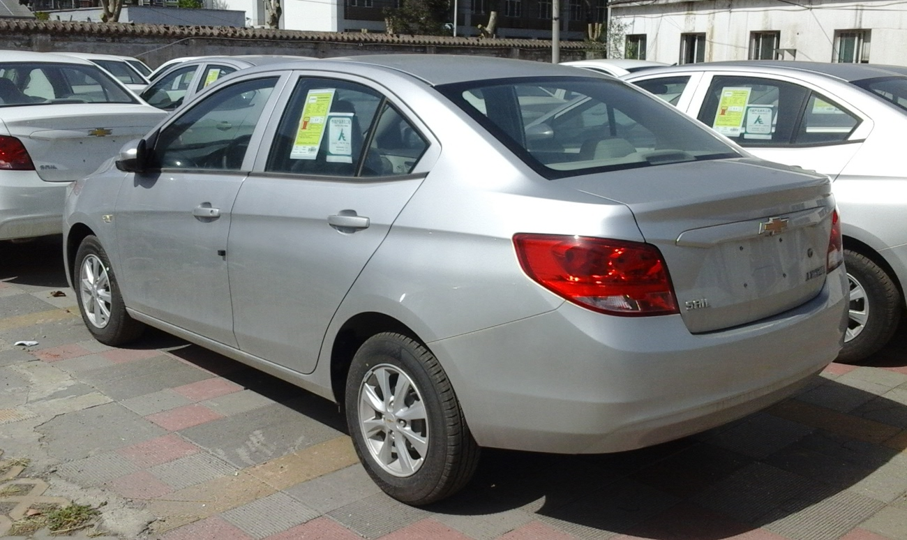 Chevrolet Sail 3 photographed in Beijing, China.